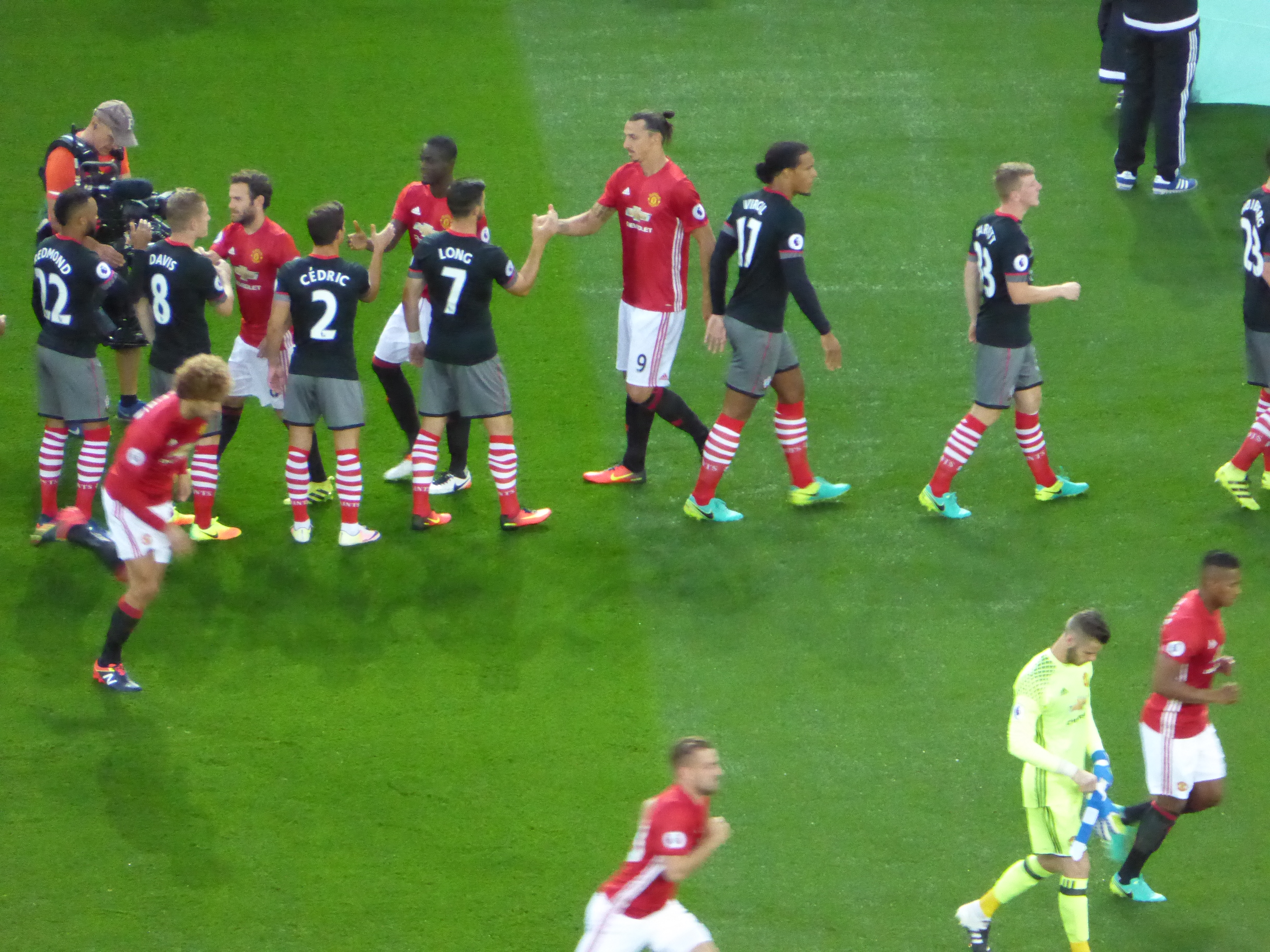 Manchester United v Southampton (2-0), Old Trafford, Manchester, Greater Manchester, England, August 2016. Home debut of returned Paul Pogba.